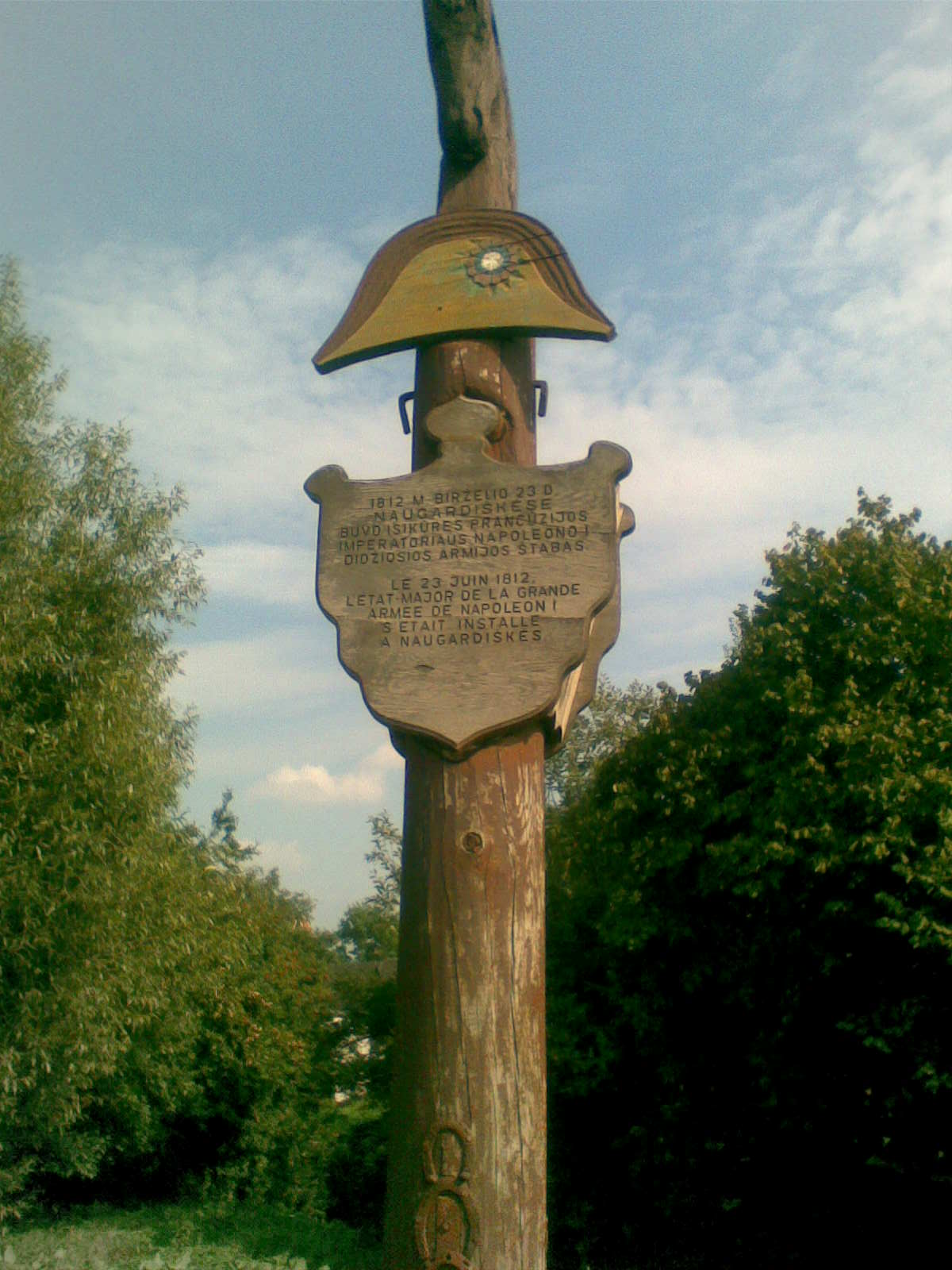 Cross in memory of Napoleon presence at Naugardiškės.